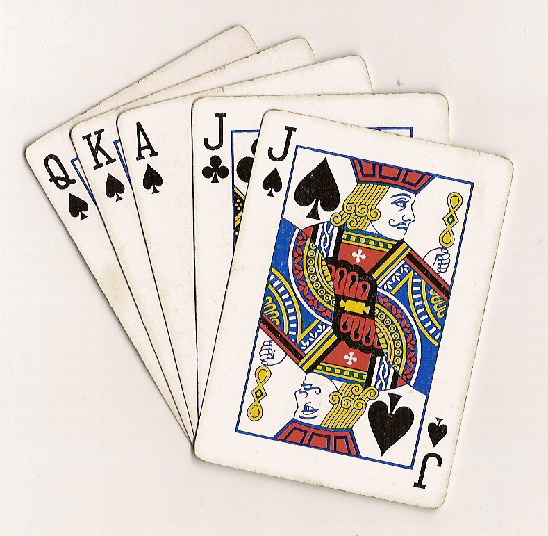 A Euchre hand consisting of the five highest cards in play (with spades as the trump suit): Jack of Spades, Jack of Clubs, Ace of Spades, King of Spades, and Queen of Spades